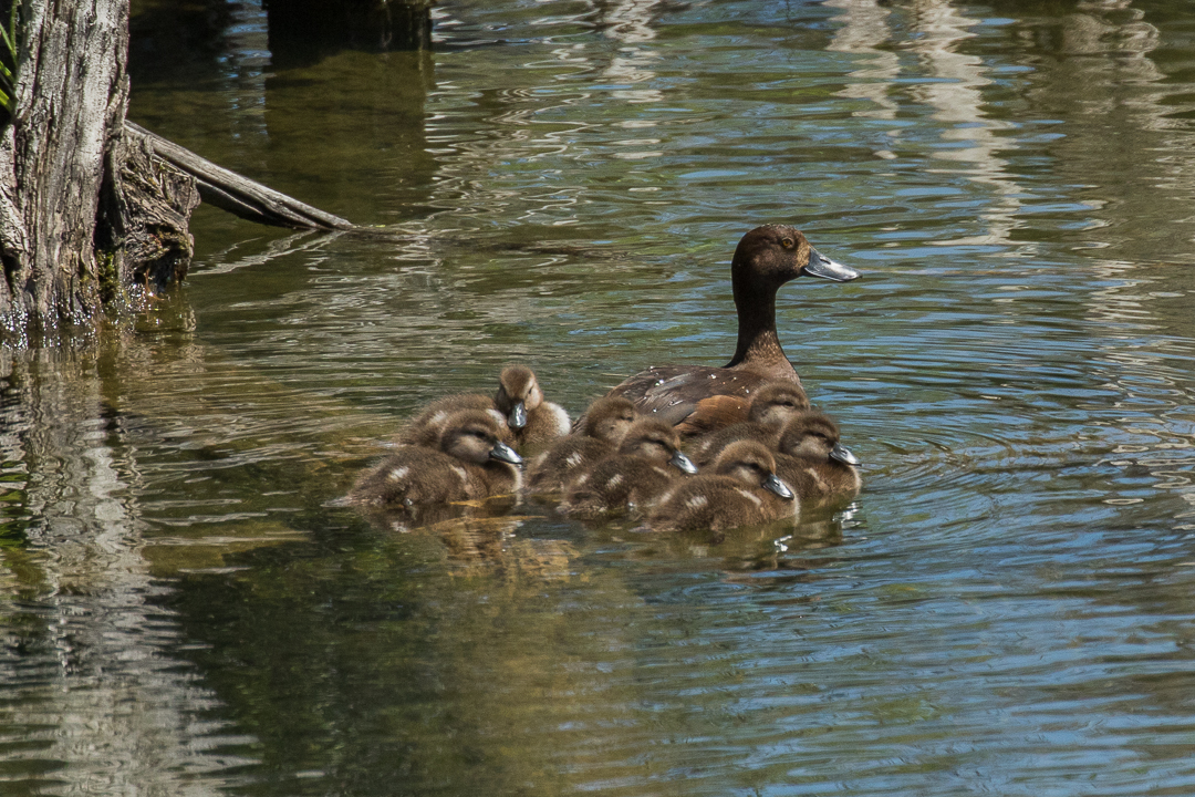 New Zealand Scaup - New Zealand_FJ0A5379